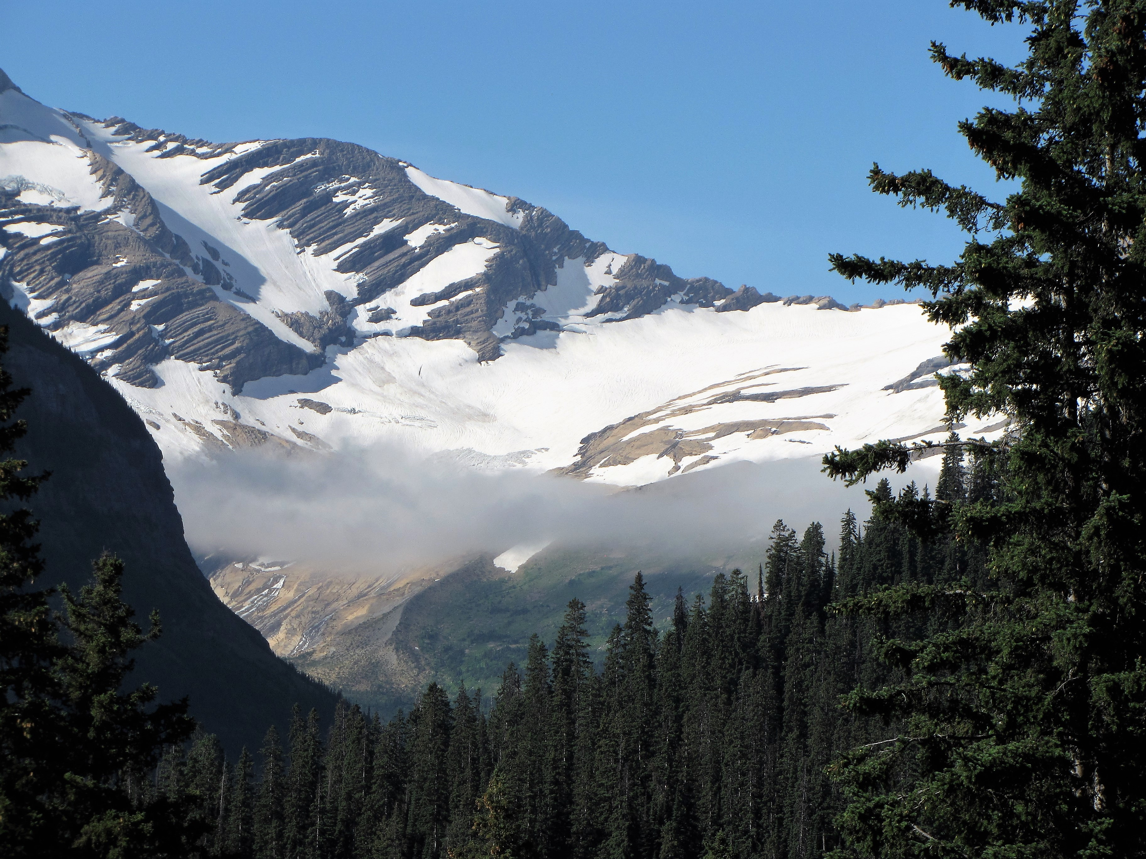 Jackson Glacier in Glacier National Park, Montana in July 2017